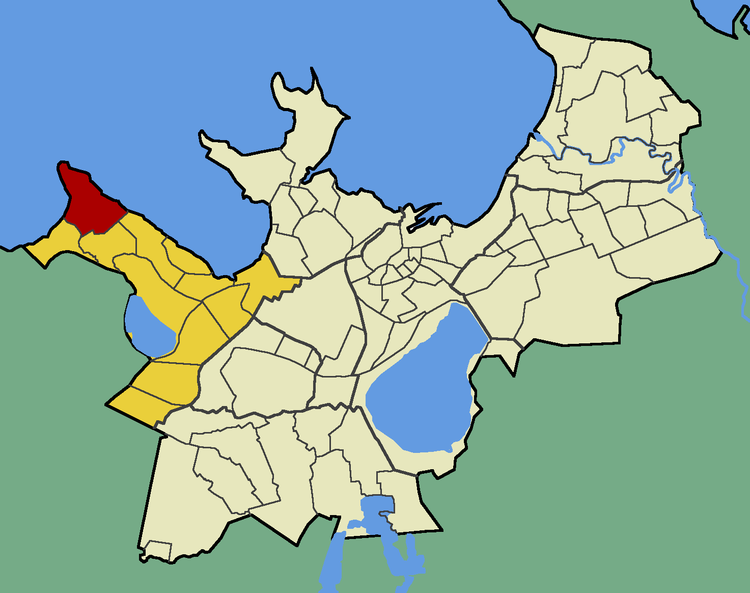 Map of Tallinn (Estonia) with borders of the quarters, Haabersti district and Kakumäe quarter emphasised